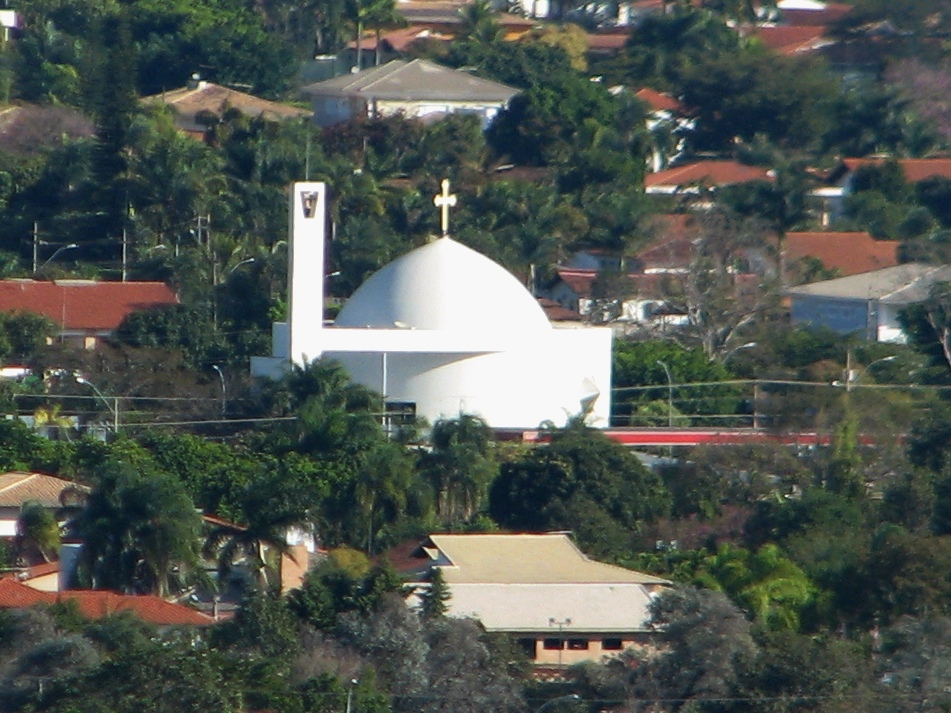 Saint George Ortodox Church in Brasilia, Brazil.